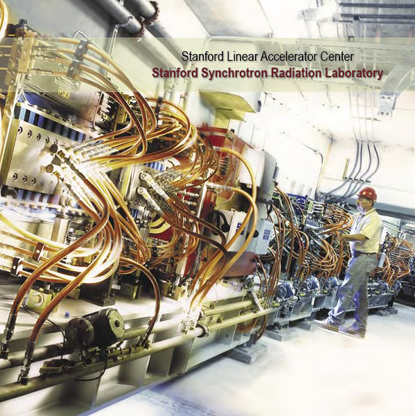 Image taken from a 2007 SSRL brochure showing in the inside of the accelerator ring.